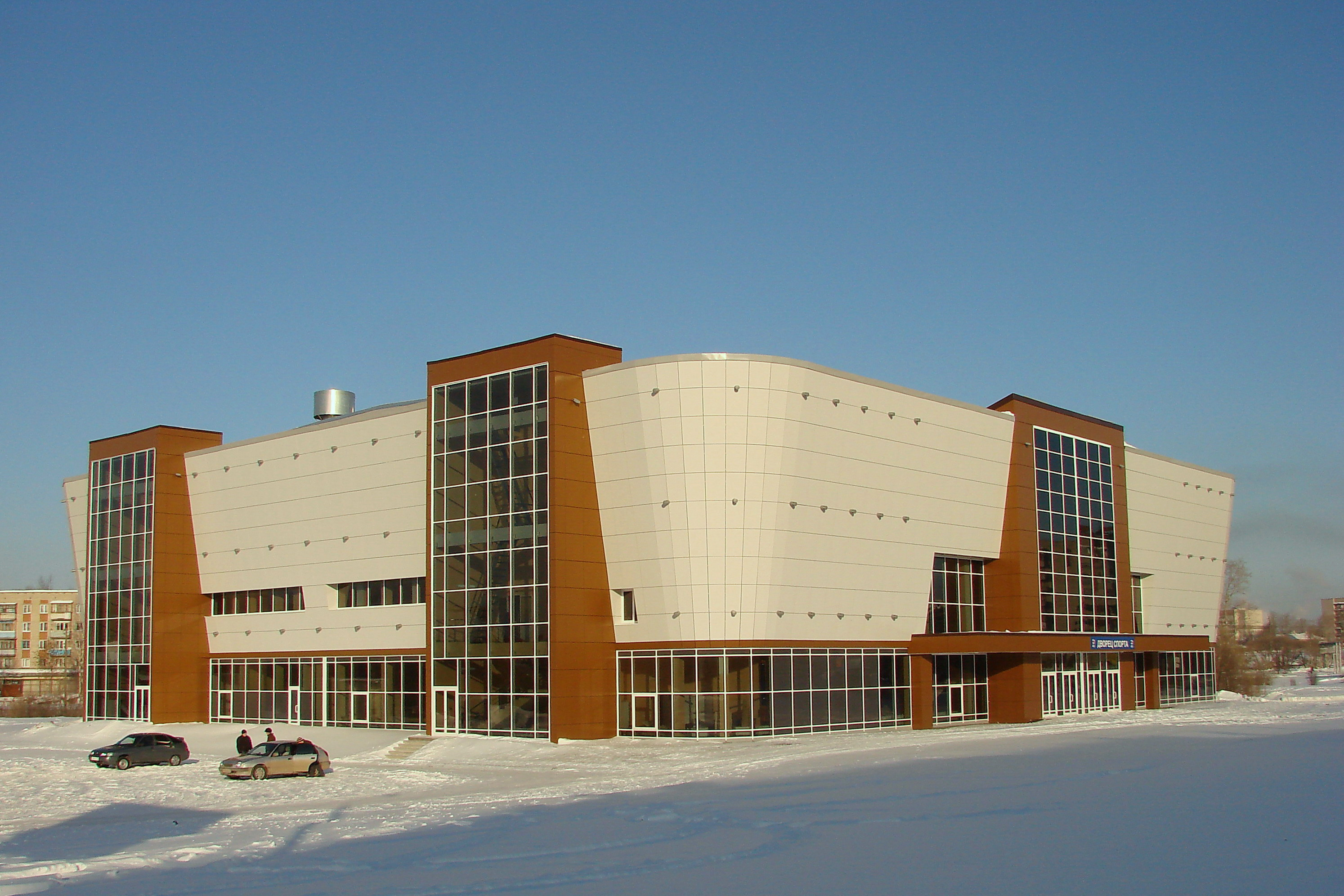 Russia, Vologda, Sports Palace (2011)